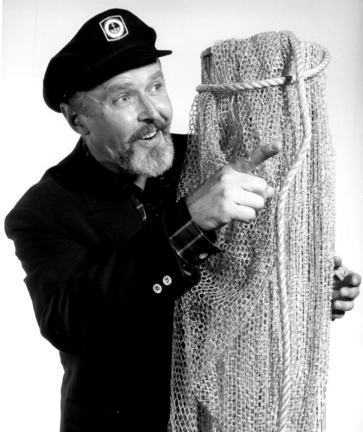 Photo of Bob Cottle as Captain Bob from the 1962 revival of the children's cartoon show Ruff and Ready.